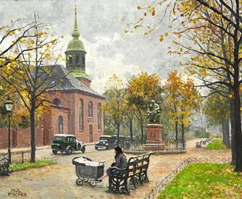 Scene from Sankt Annæ Plads (Square) in Copenhagen with Garnisonskirken (Church) and the statue of the composer J. P. E. Hartmann